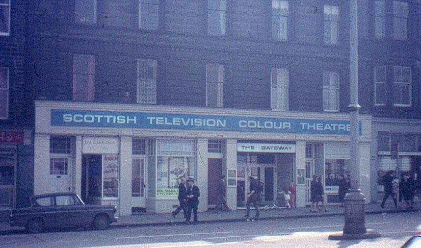 Exterior view of STV's former Edinburgh Studios 'Gateway' on Leith Walk